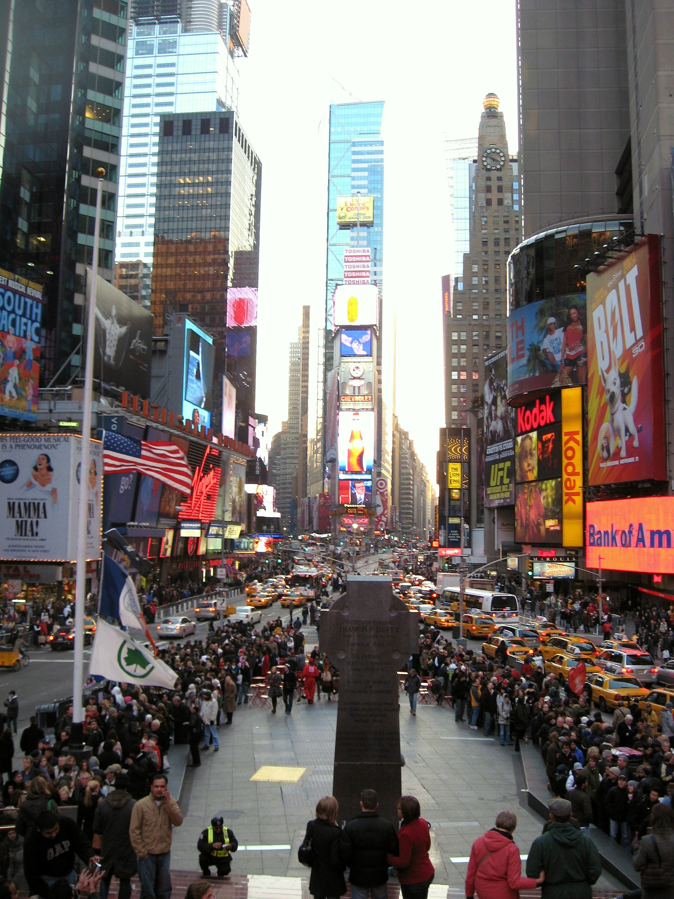 Looking south towards One Times Square (center) from Duffy Square at the intersection of 7th Ave. (foreground, left) and Broadway (foreground, right).